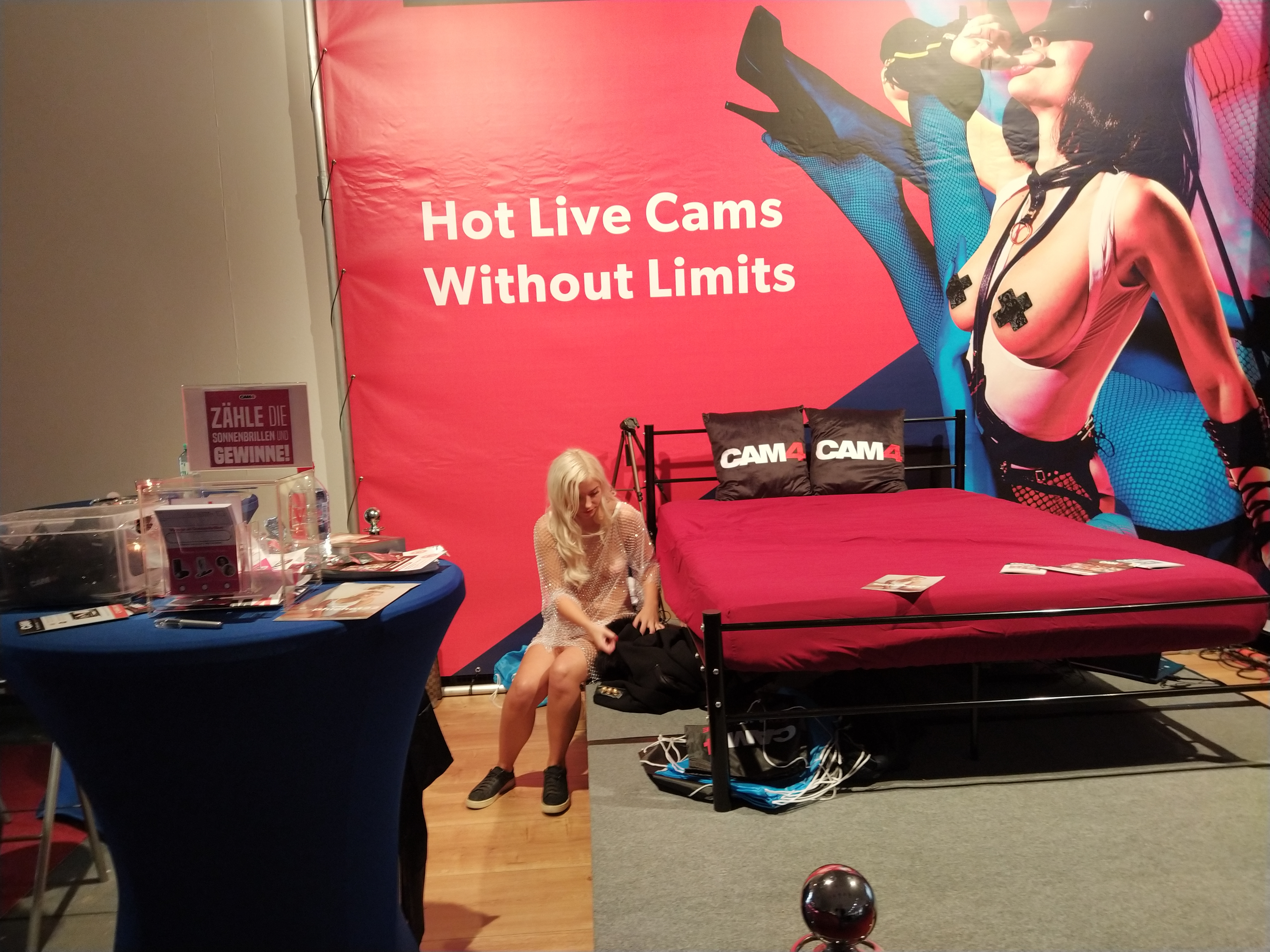 Venus Berlin 2019